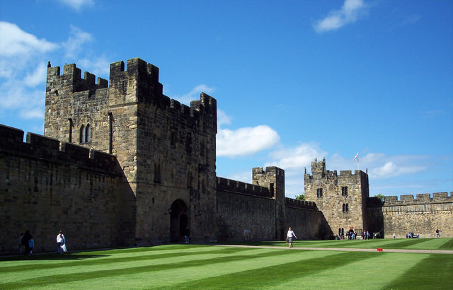 Beautiful Lawns at Alnwick Castle